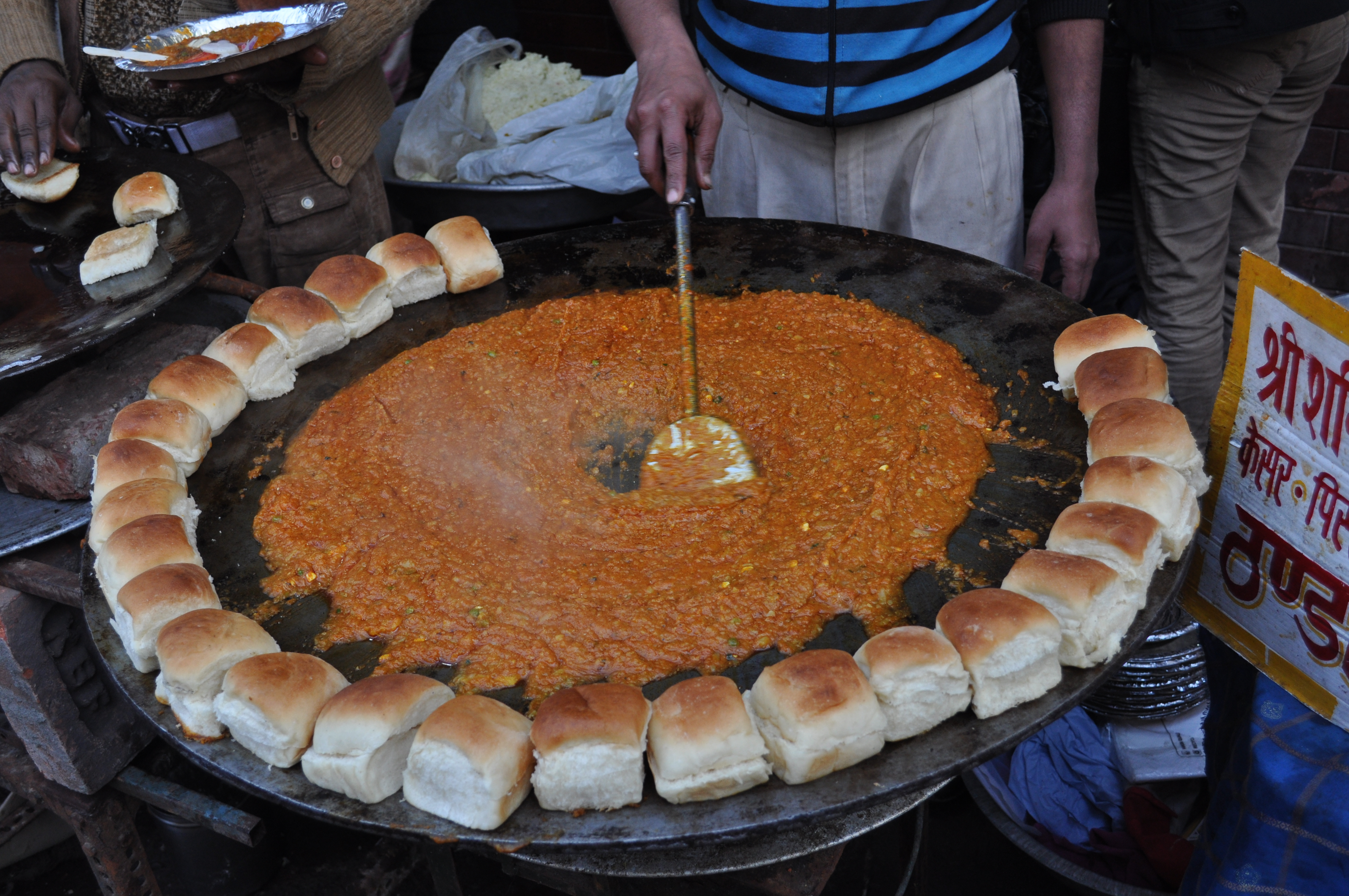 An Evening at Chandni Chawk, New delhi. Feel free to use this image but give credit to